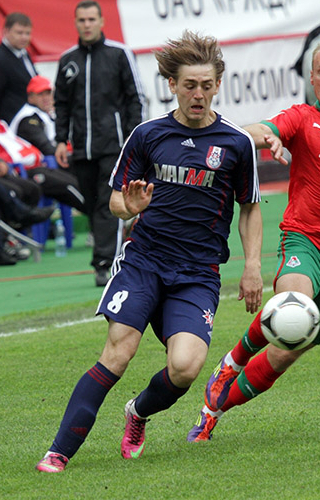 Kirill Panchenko